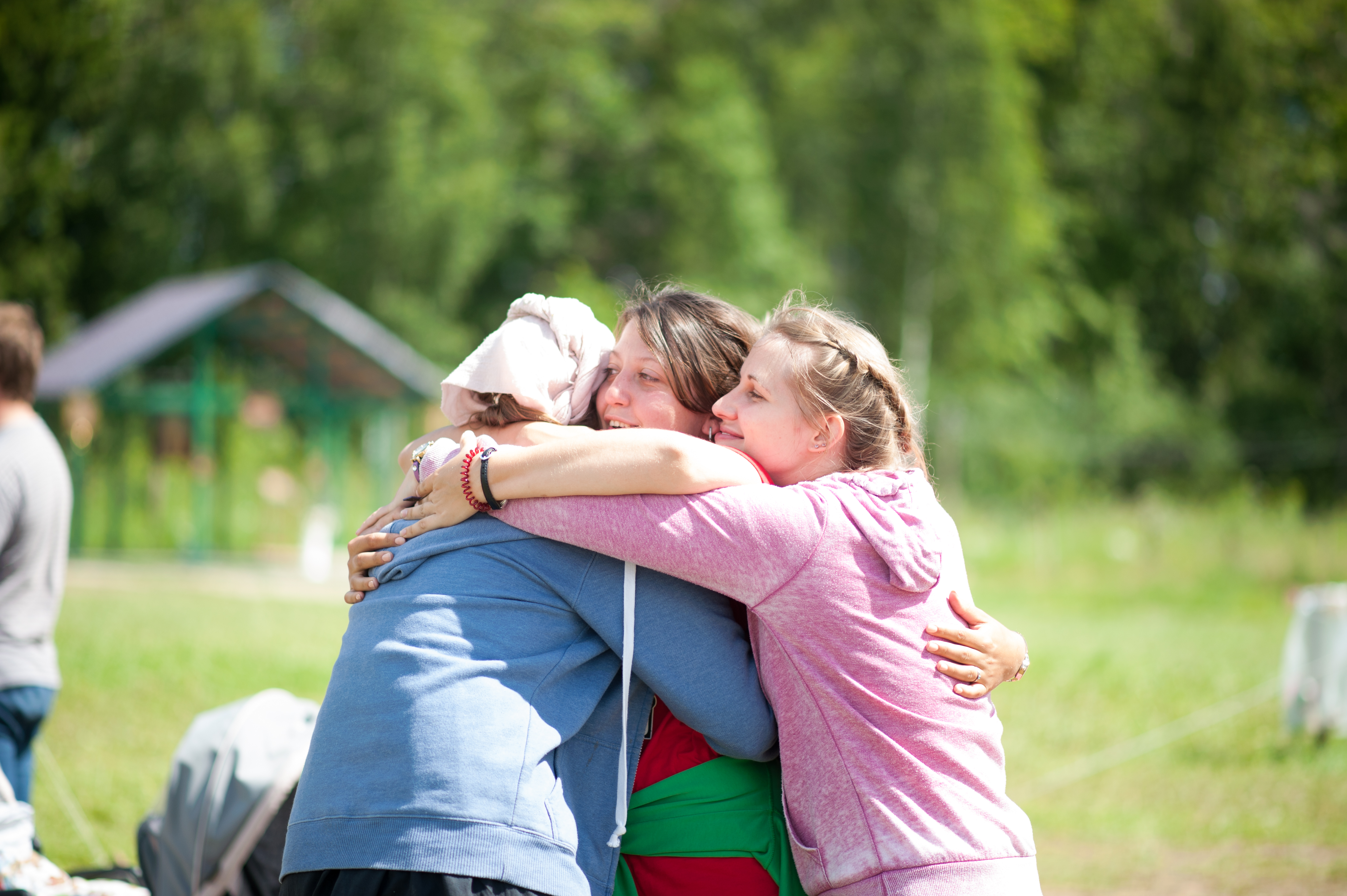 Group hugging at festival "Bratya" before departure